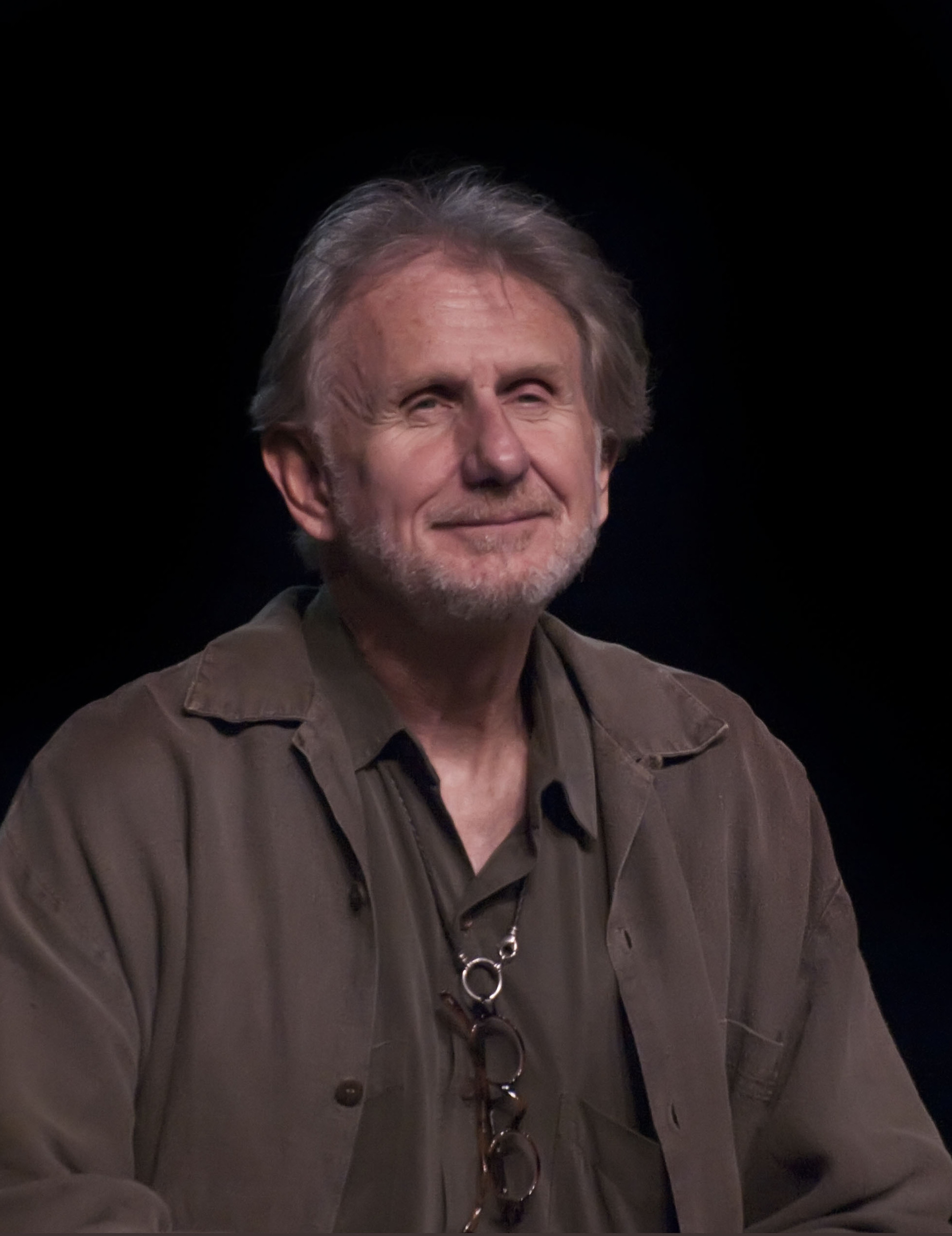 René Auberjonois at the 2009 Star Trek convention in Las Vegas.